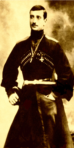 Royal Prince Simonika Bagrationi-Mukhraneli, 1889 Georgia